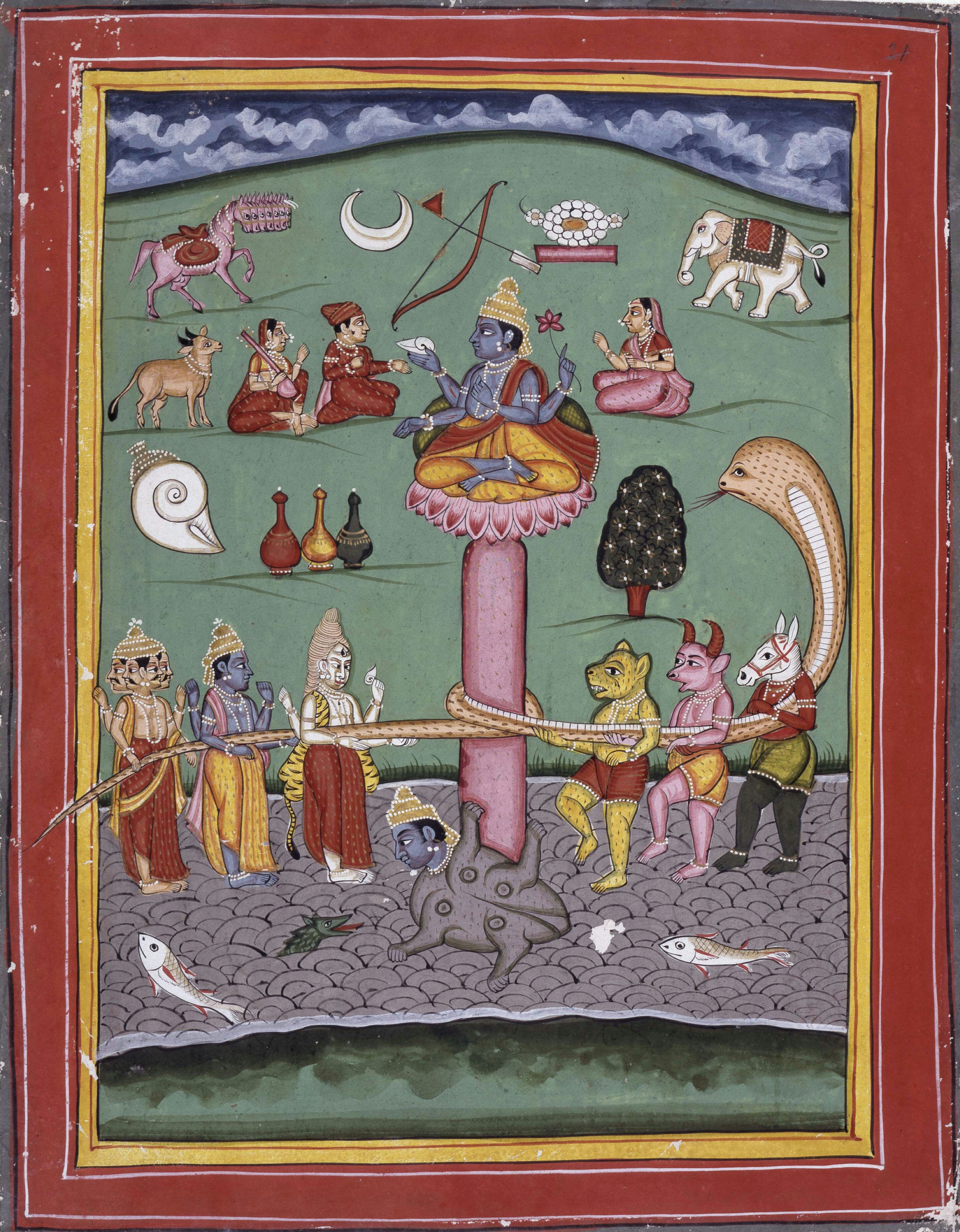 "Album leaf painting of the Churning of the Ocean of Milk. Vishnu appears here at the base of the cosmic churning pole as the turtle Kūrma and also seated on top of Mount Mandara. The gods (to left) pull on the rope made of the serpent Vasuki, while demons pull on the right side. Several gifts can be seen in the upper part of the painting. Painted on paper. According to register, folio 14."